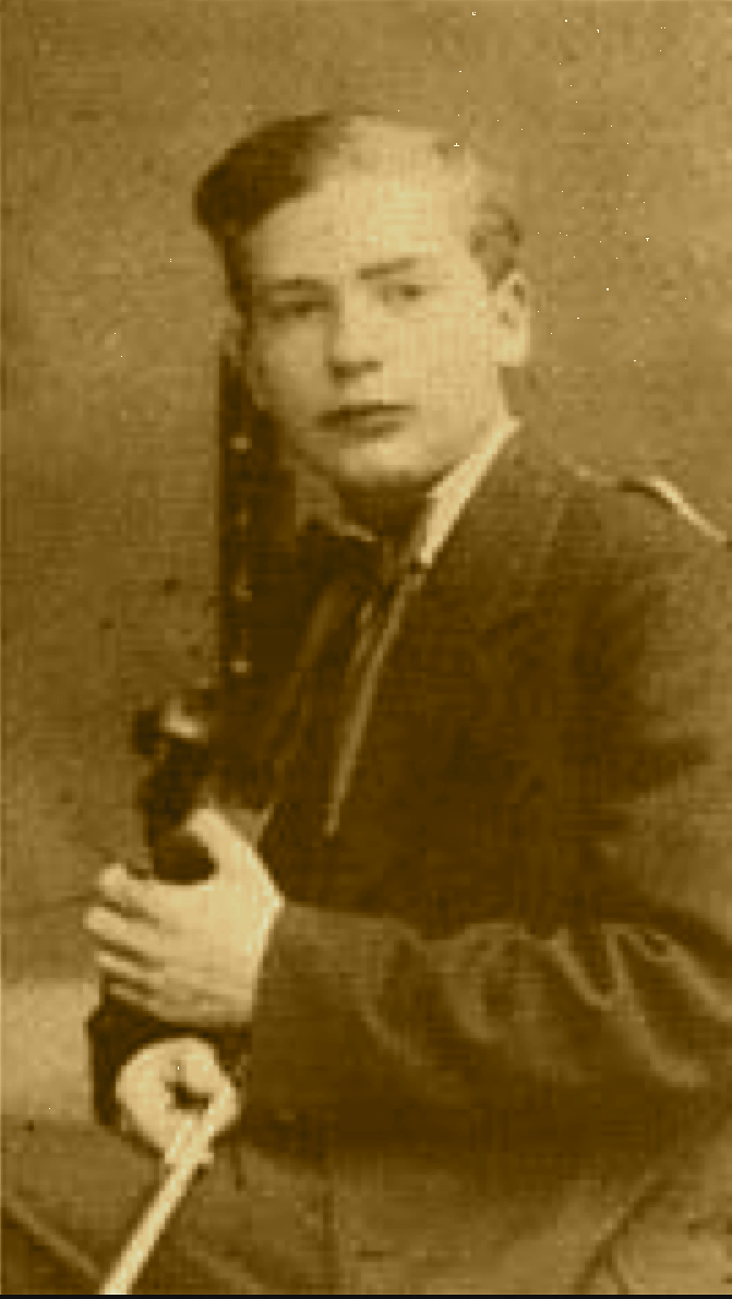 Josef Wolfsthal (1899–1931), born in Vienna as Josef Wolfthal, was an Austrian violinist, a violin pupil of the famous Hungarian violinist Carl Flesch. Wolfsthal died of pneumonia in Berlin.